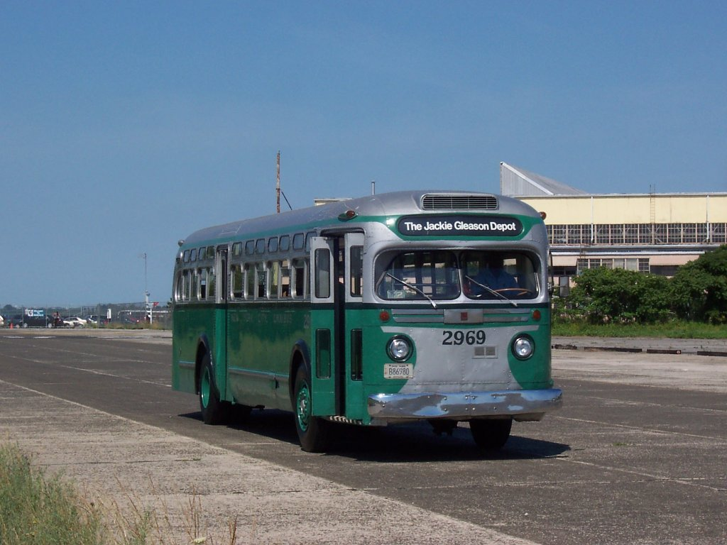 GMC Old Look TDH-5101 #2969, under its own power (this bus no longer runs on its own), departs Floyd Bennett Field. The bus, originally numbered #4789, is numbered as 2969 in a direct reference to The Honeymooners.